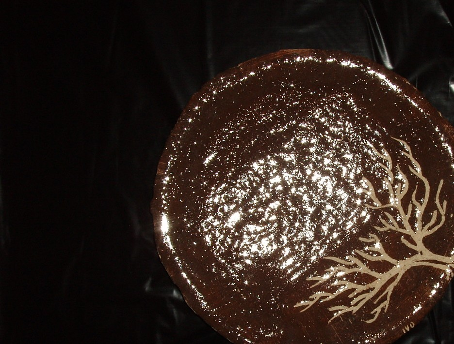 Use of engobe. Autor Ivo Kruusamägi.